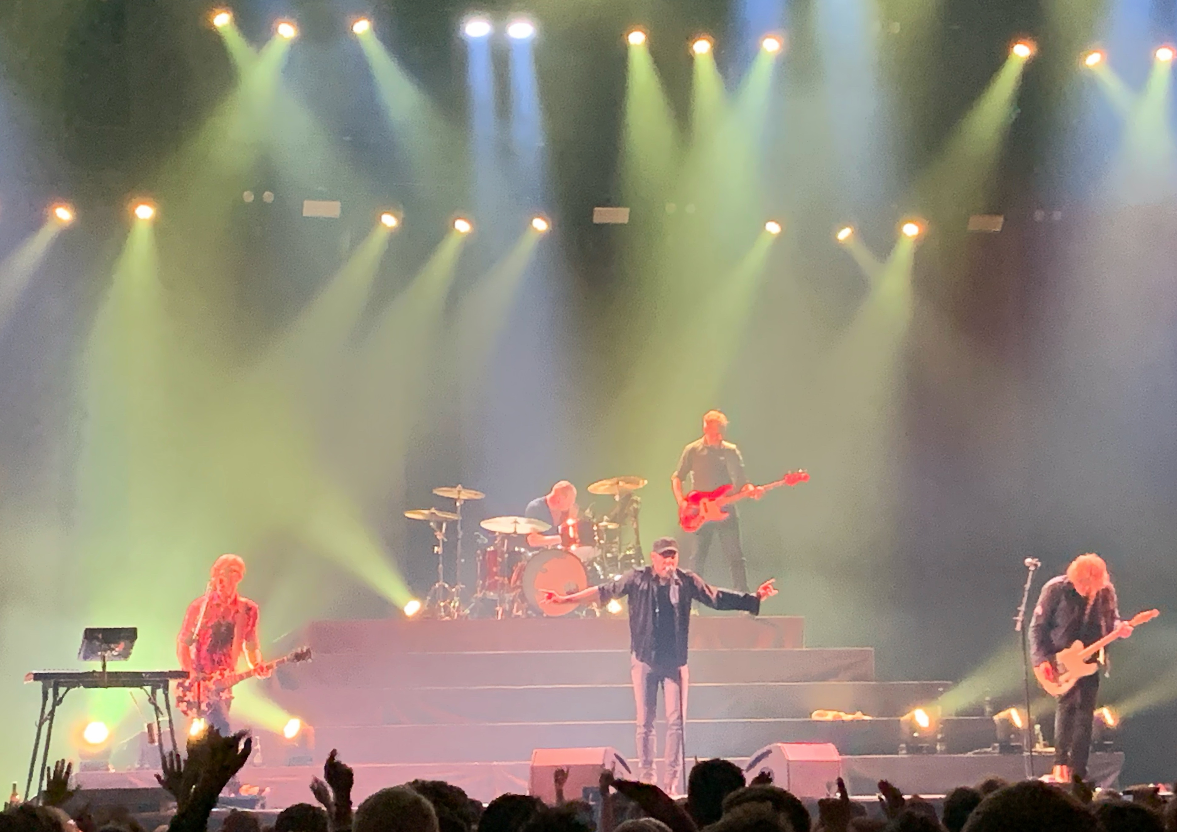 Magtens Korridorer at KB Hallen 28 December 2019